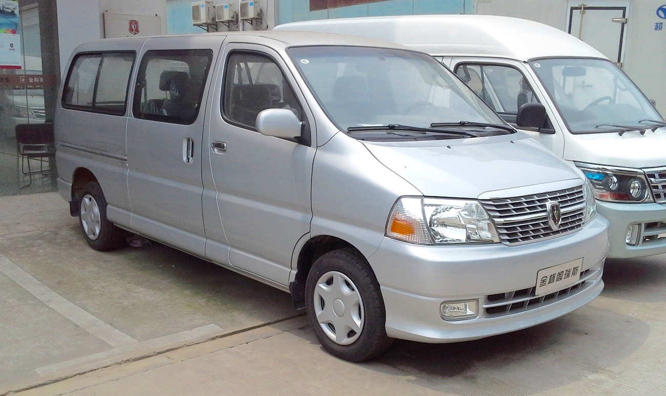 Jinbei Granse LWB facelift photographed in Wuhan, Hubei province, China.